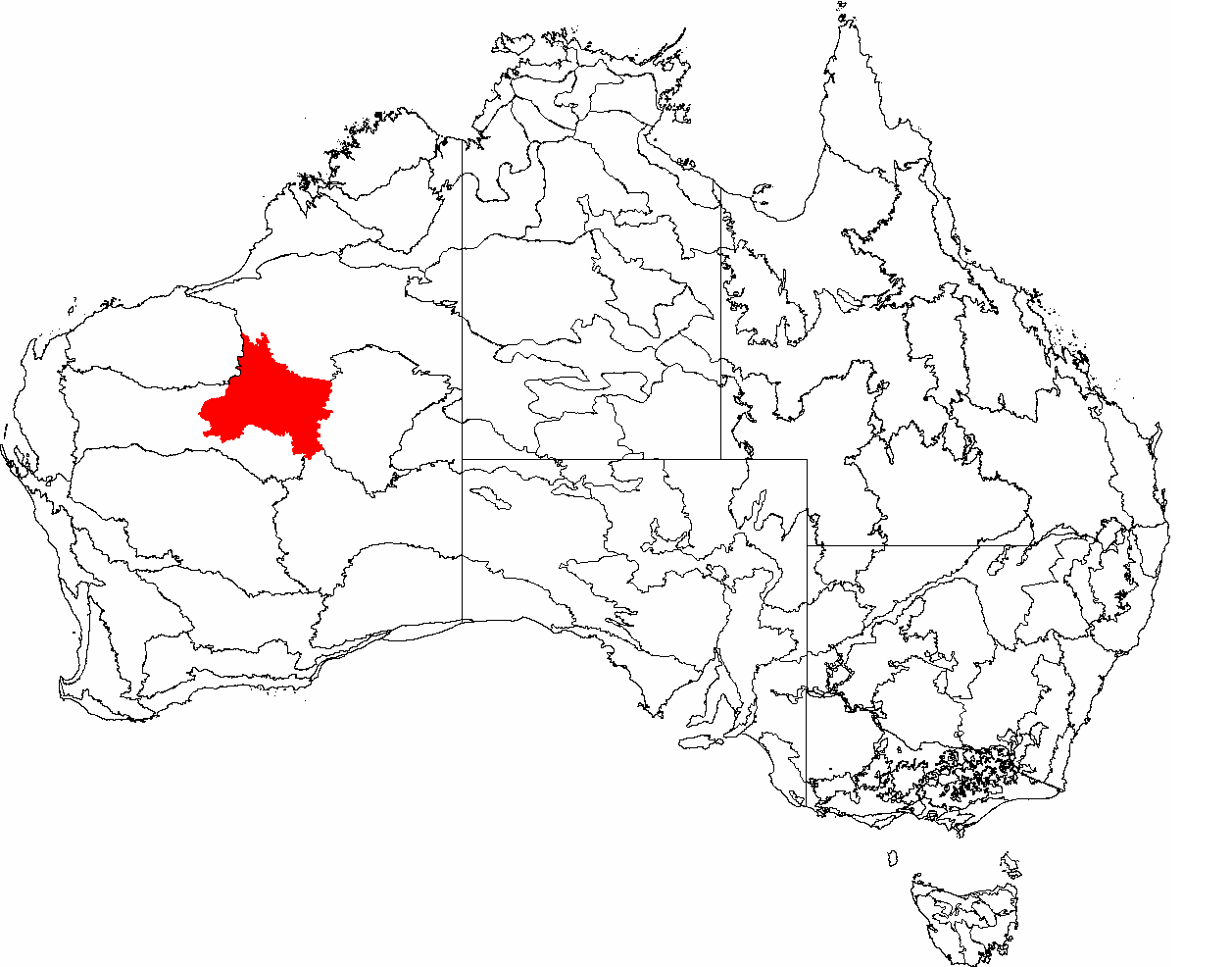 This is a map of the Interim Biogeographic Regionalisation of Australia (IBRA), with state boundaries overlaid. The Little Sandy Desert region is shown in red.